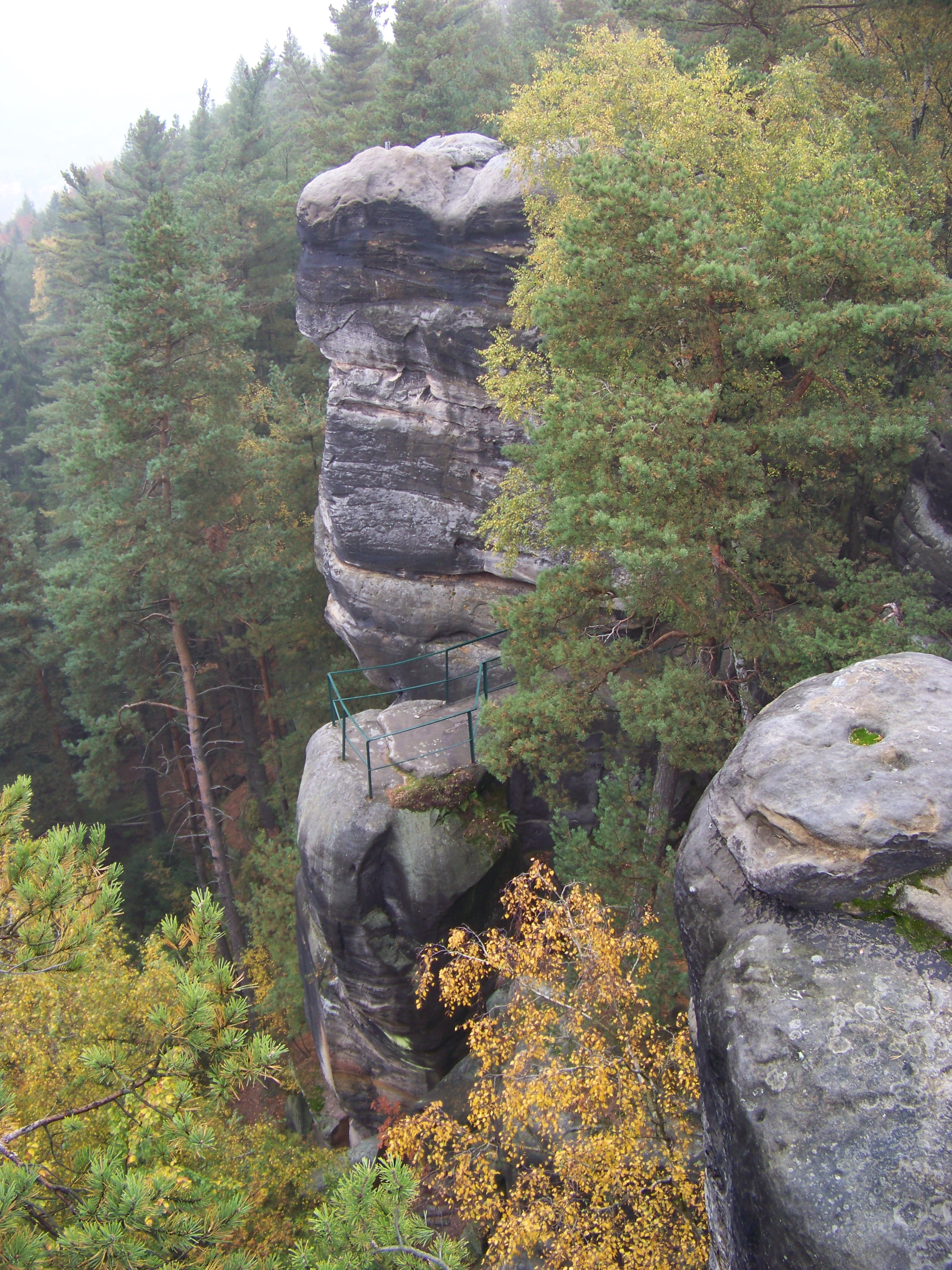 Koberovy-Besedice, Jablonec nad Nisou District, Liberec Region, the Czech Republic. Besedice Rocks, Chléviště. - Google Maps - Google Earth